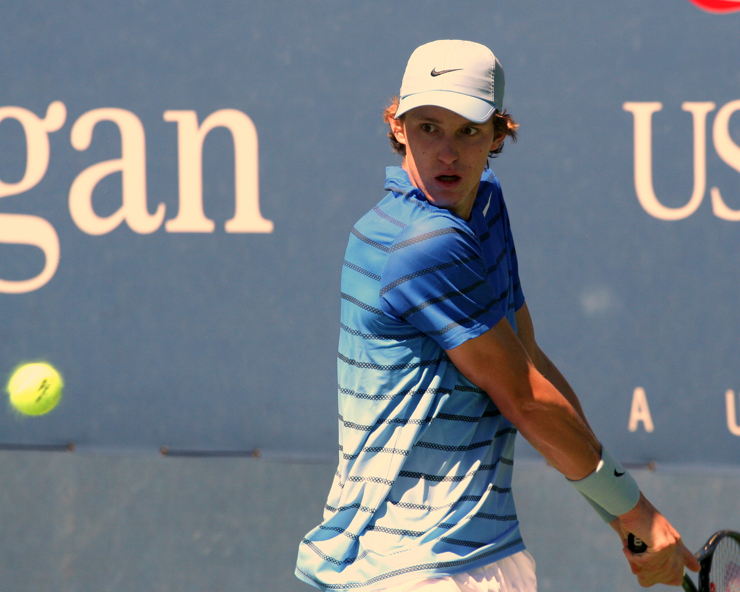 Wednesday, Sept. 4, 2013